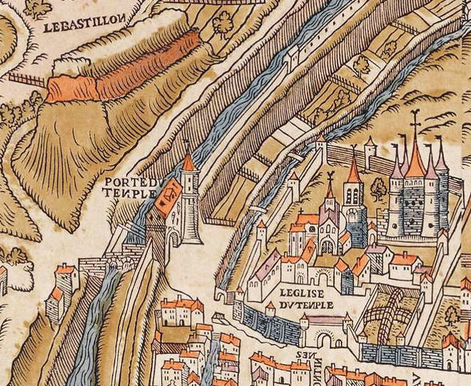 Temple gate on the plan of Truschet and Hoyau (1550).